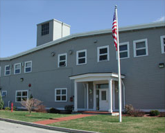 Photo of Hindley Mfg's Head-Quarters in Cumberland, RI